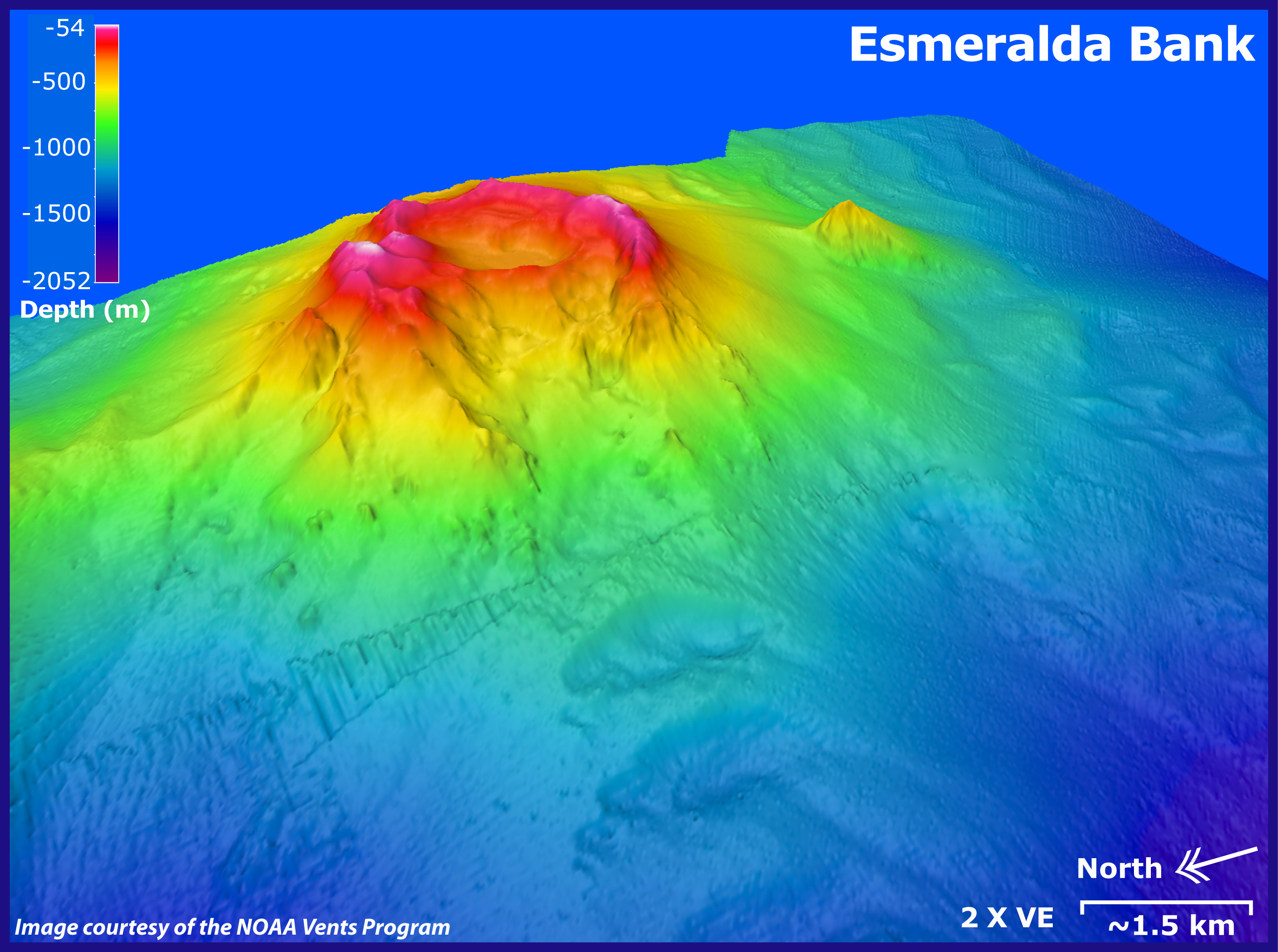 Esmeralda Bank submarine volcano, looking toward the southeast. Depths in this image range from 54 to 2052 meters (177 to 6730 feet). Image is two times vertically exaggerated. EM300 bathymetry data (~25 meter resolution) overlaid on SeaBat data (~50 meter resolution). Distance indicated is kilometers in foreground. SeaBat data courtesy of Yoshihiko Tamura, JAMSTEC. Image courtesy of Submarine Ring of Fire 2006 Exploration, NOAA Vents Program.